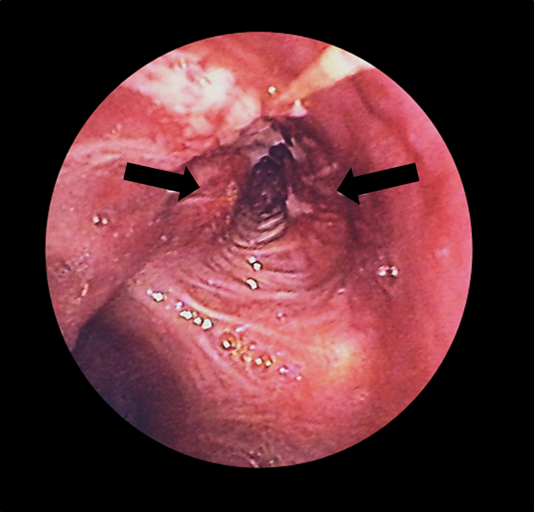 Lung cancer in the left. bronchus as seen with a bronchoscope.